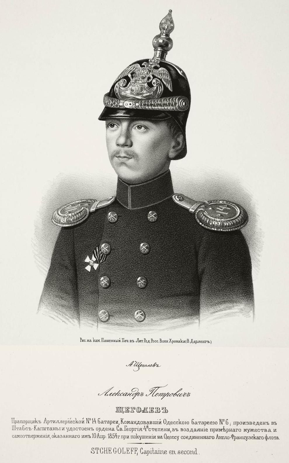 Aleksander Petrovitch Tchogolew, here with the rang of Praporshchik about 1852.